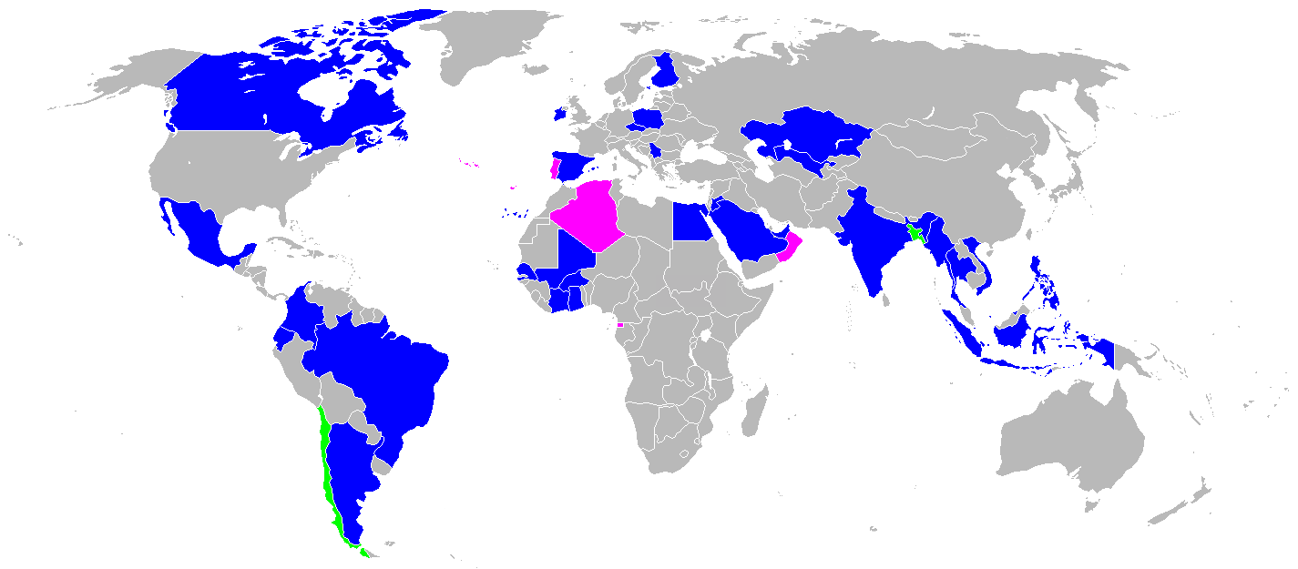 World operators of the EADS CASA C-295. Operators of the C-295M in dark blue, C-295 Persuader in green, both in pink.